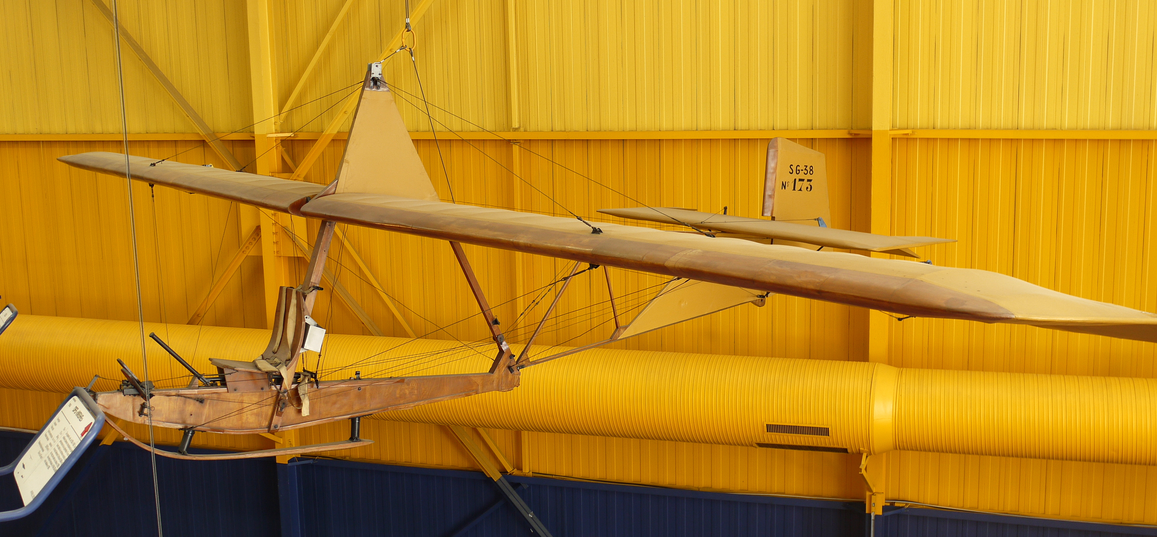 German glider SG 38 (1938), Museum of Air and Space Paris, Le Bourget (France)